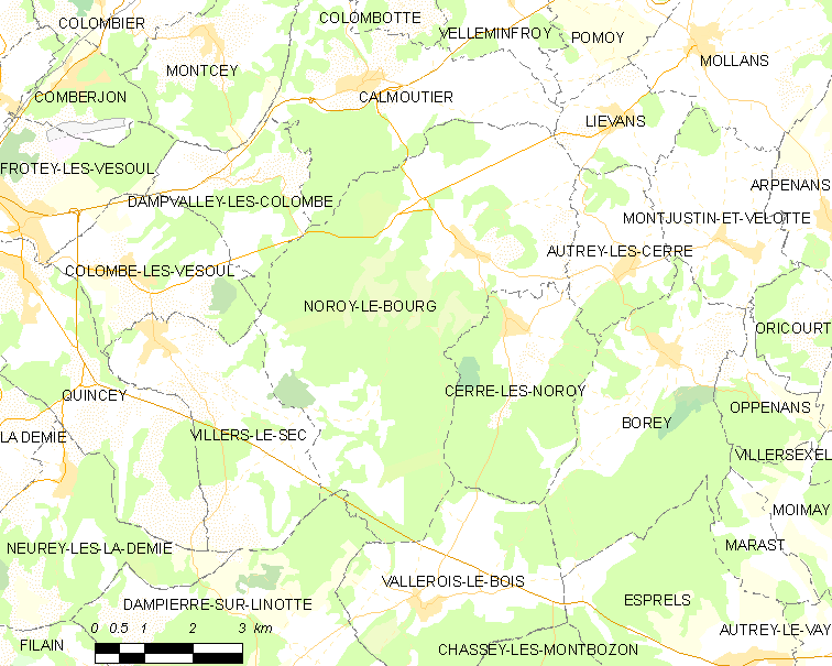 Map of French municipality